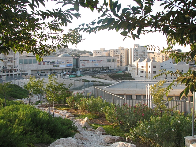 Photo by Gila Brand. This is my own work. Pisgat Zeev. View of Hapisga mall from garden on Moshe Dayan Boulevard, August 2007